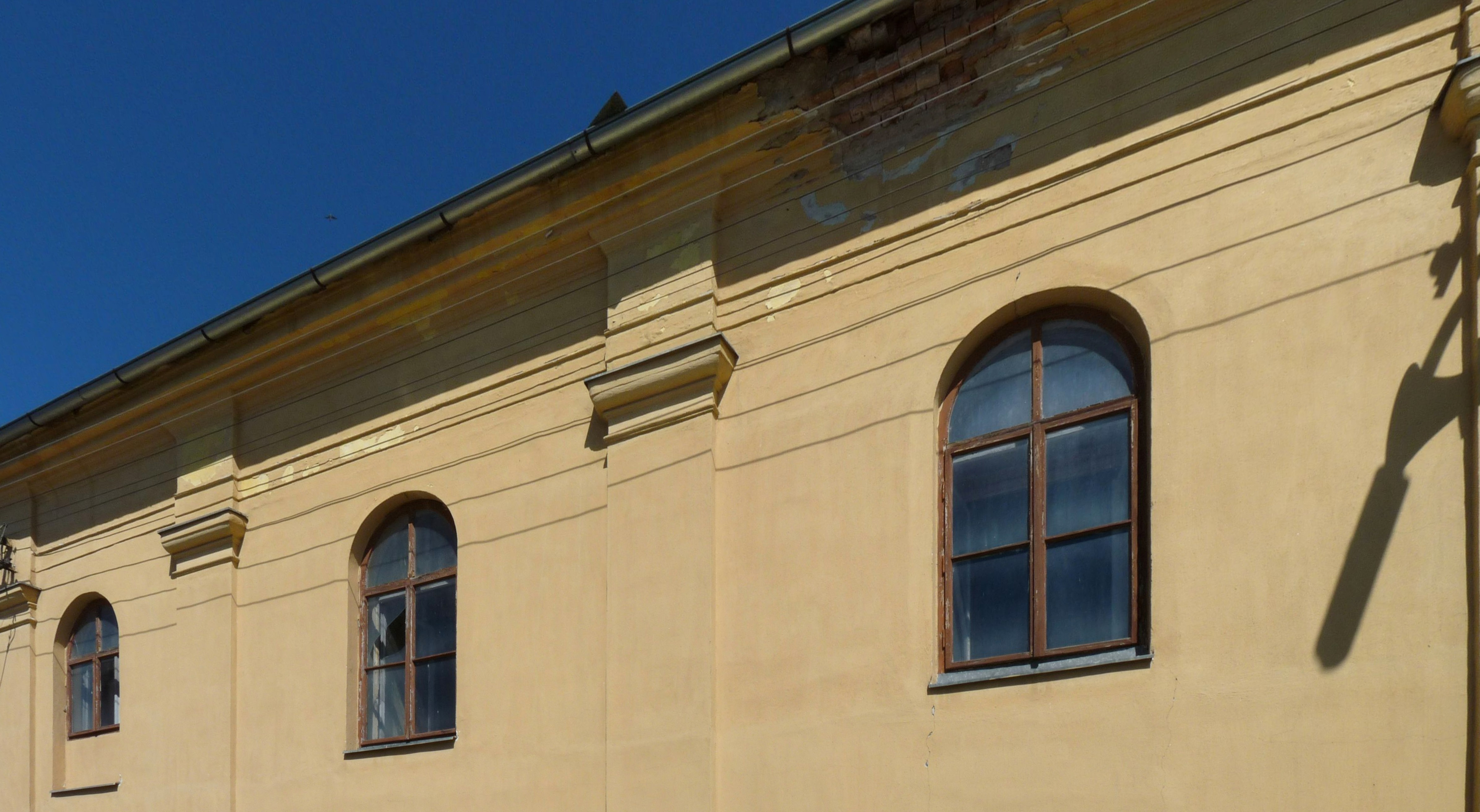 Synagogue in the town of Stádlec, Tábor District, South Bohemian Region, Czech Republic.